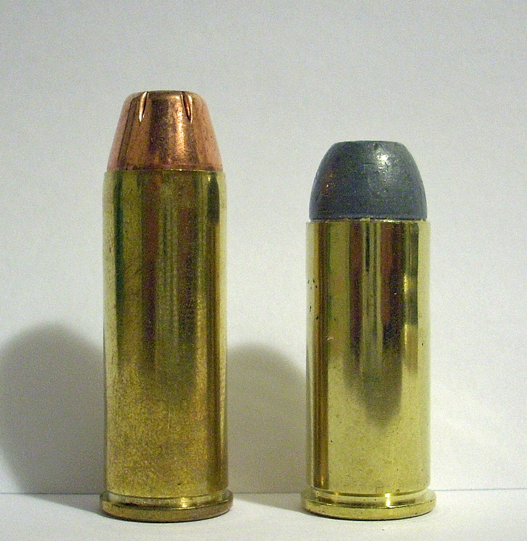 .45 Schofield cartridge (right) alongside the familiar .45 Colt